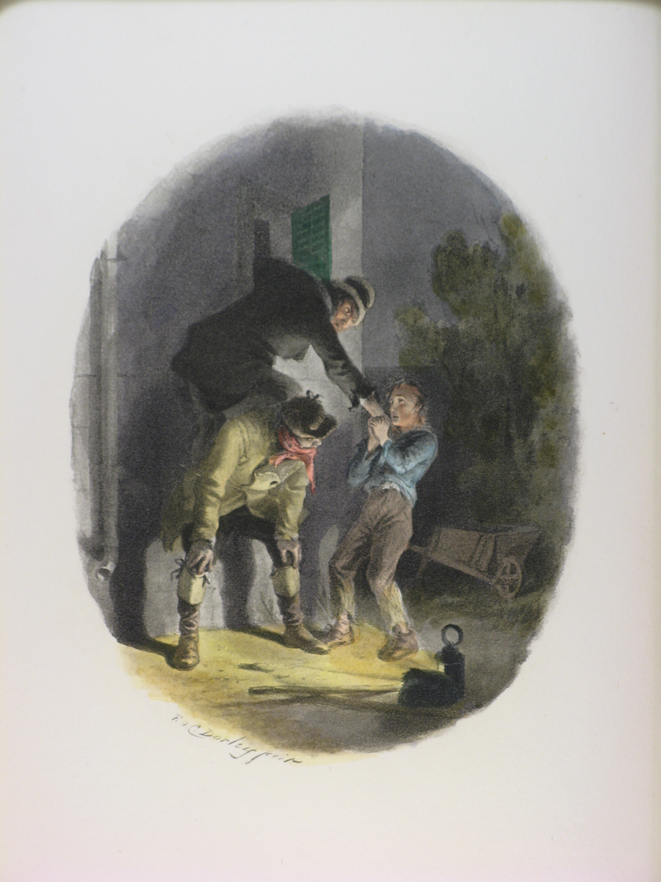 A photograph of the colorized frontispiece in The Writings of Charles Dickens volume 4, Oliver Twist, titled "The Attempted Burglary".